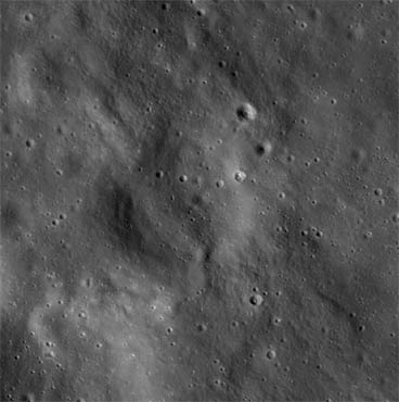 LROC NAC image M104447576RC.